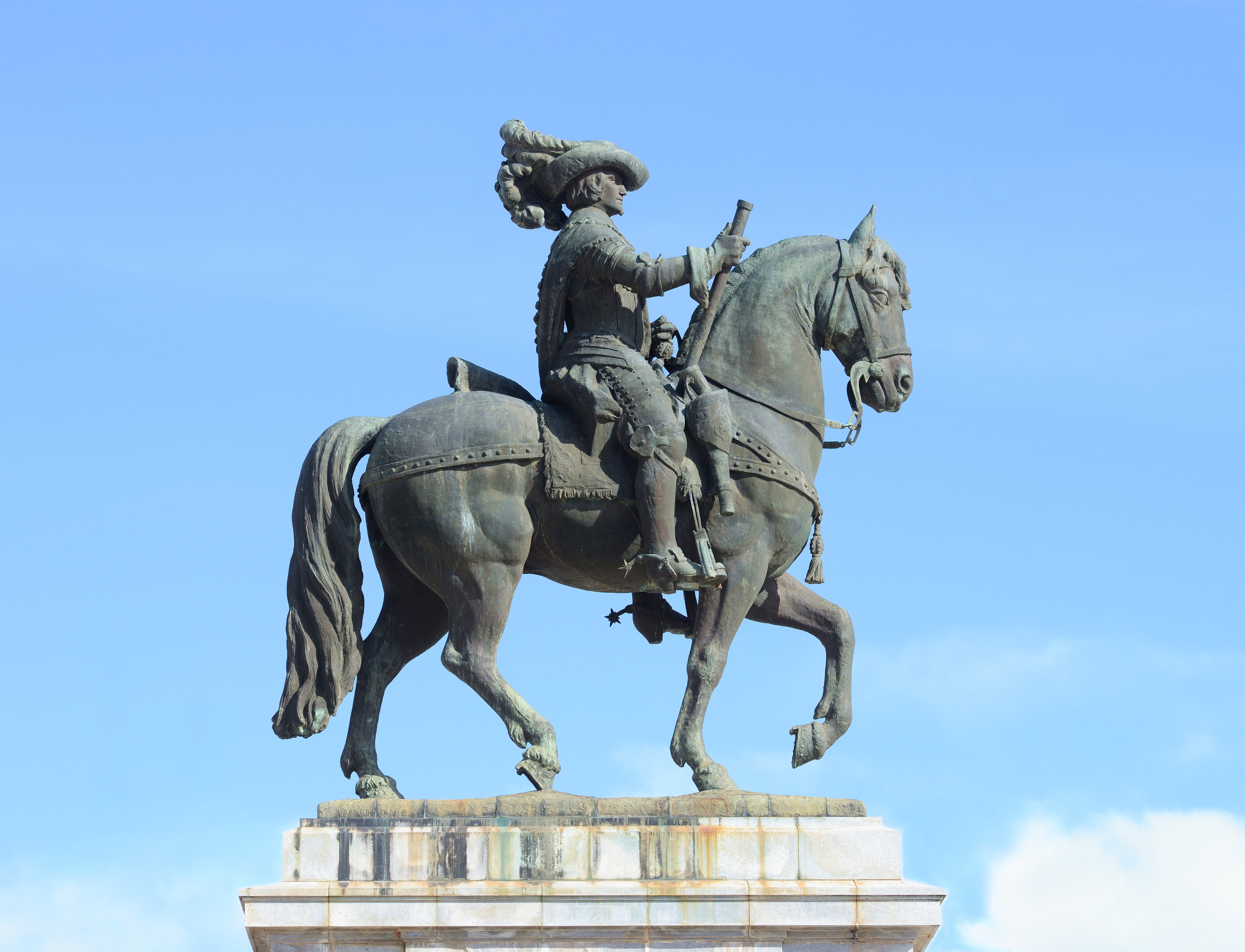 Statue of James I of Portugal, the 4th Duke of Bragança